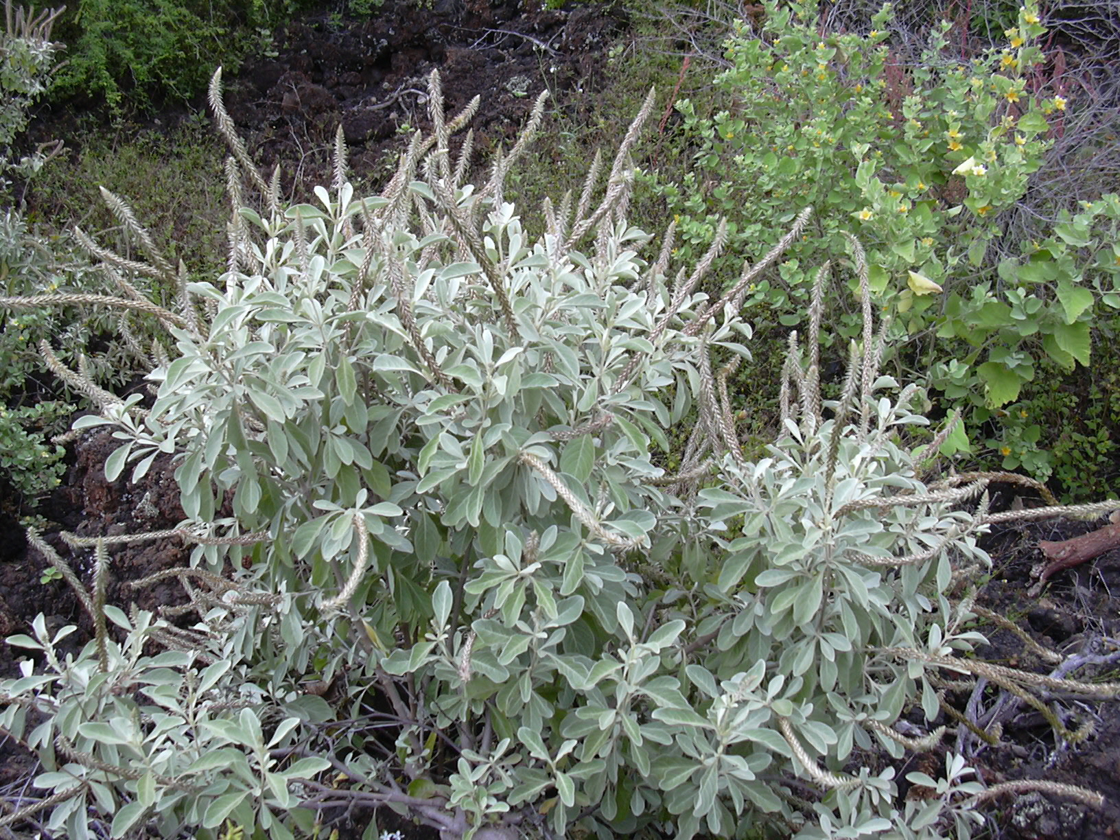 Achyranthes splendens var. splendens (seeds). Location: Maui, Puu o Kali